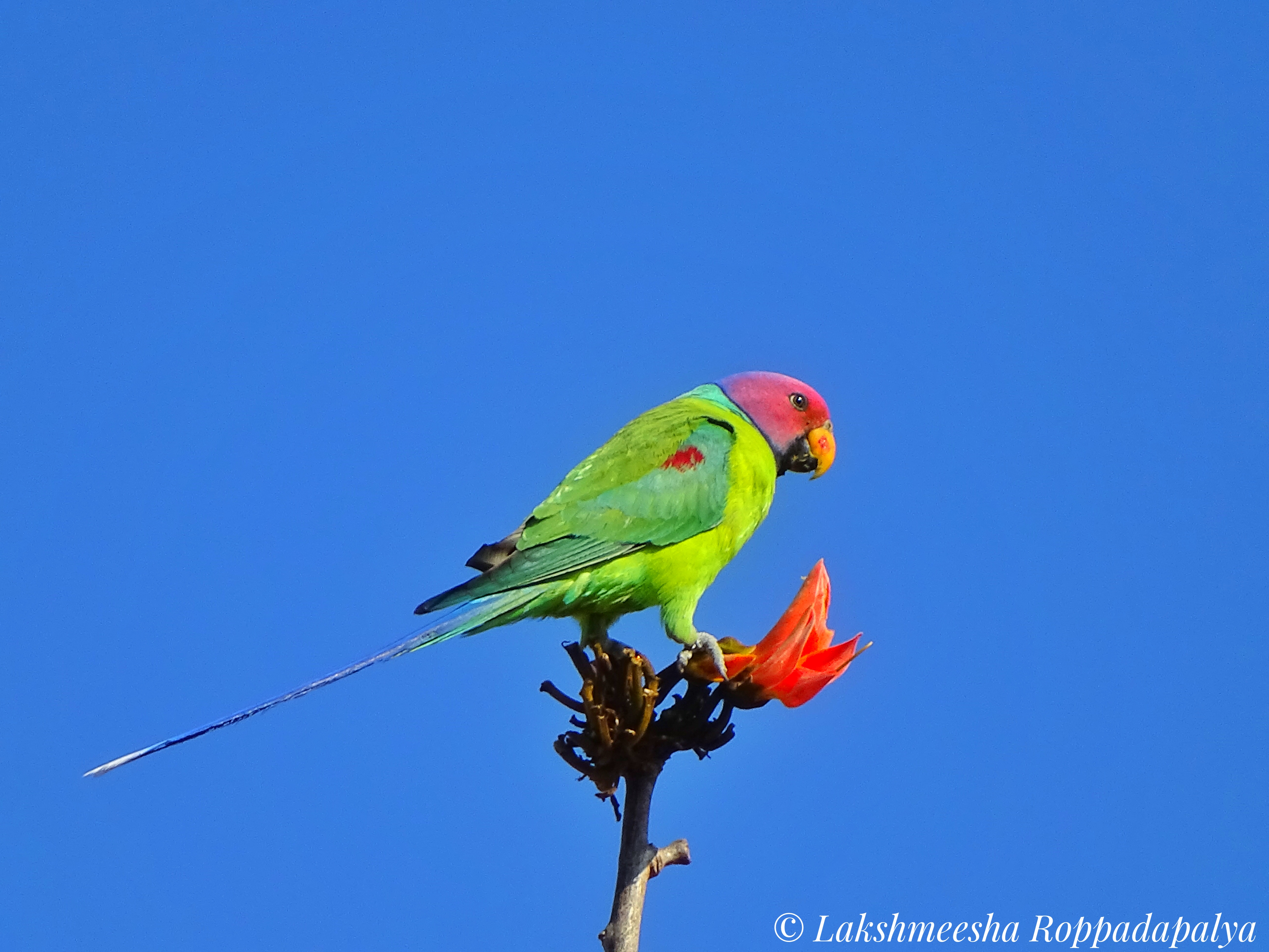 Plum headed parakeet feeding palash flower at Roppadapalya, Tumakuru, Karnataka.